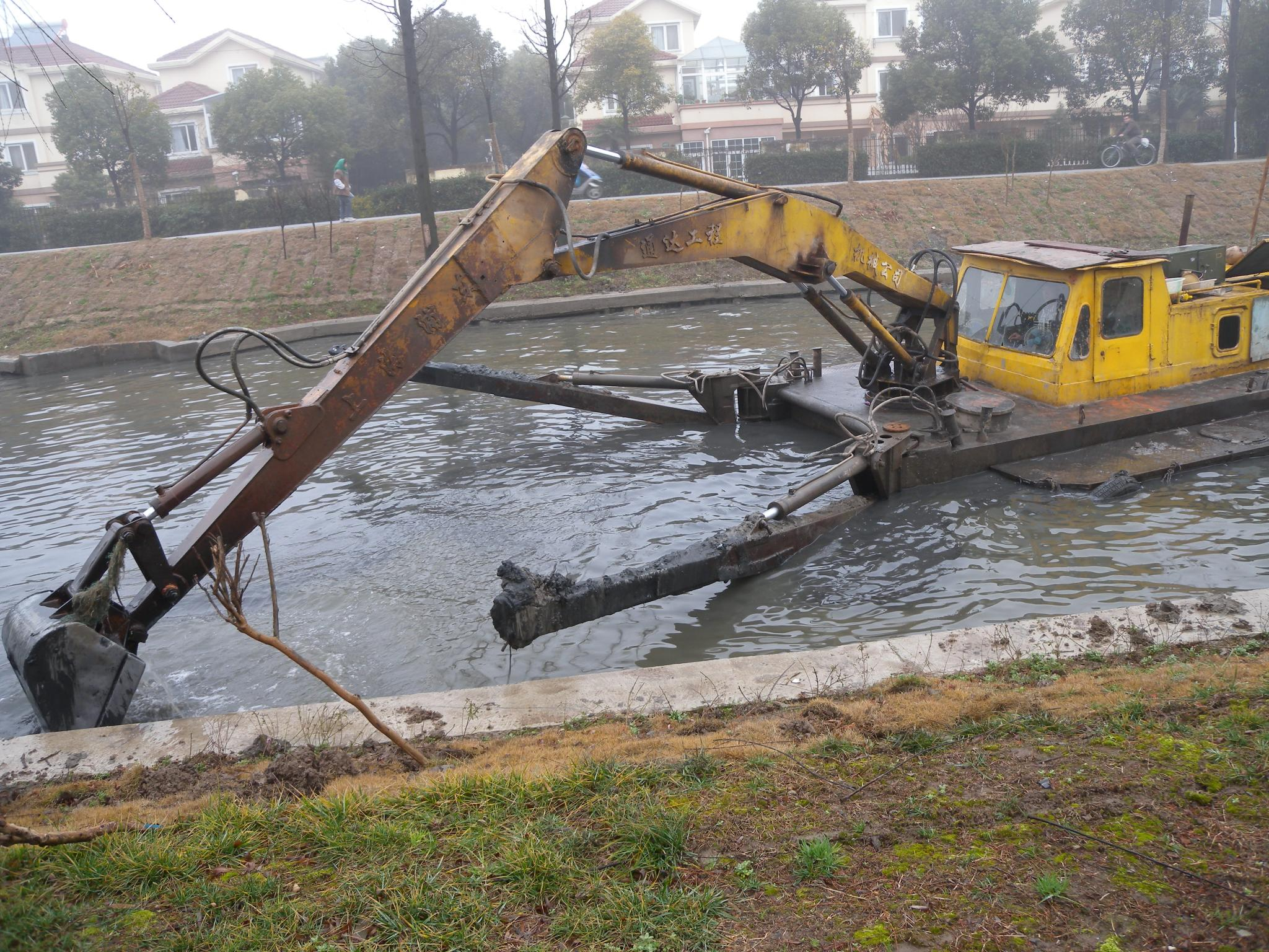 Dredge ship in China.